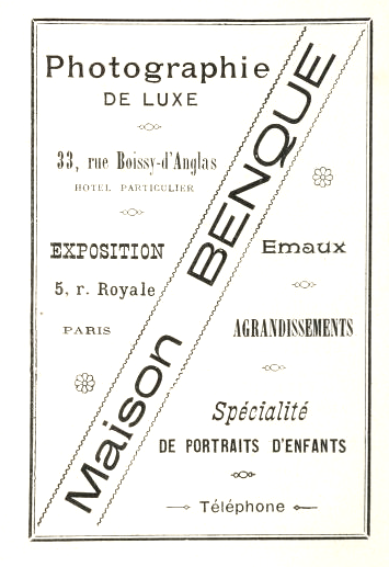 Advertising for Maison Benque located in Paris, document from Jules Martin, Nos peintres et sculpteurs, graveurs, dessinateurs, Paris, Flammarion, 1897, p. 378.